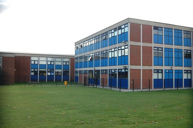 James Hornsby Comprehensive School (former St Nicholas School), Laindon.